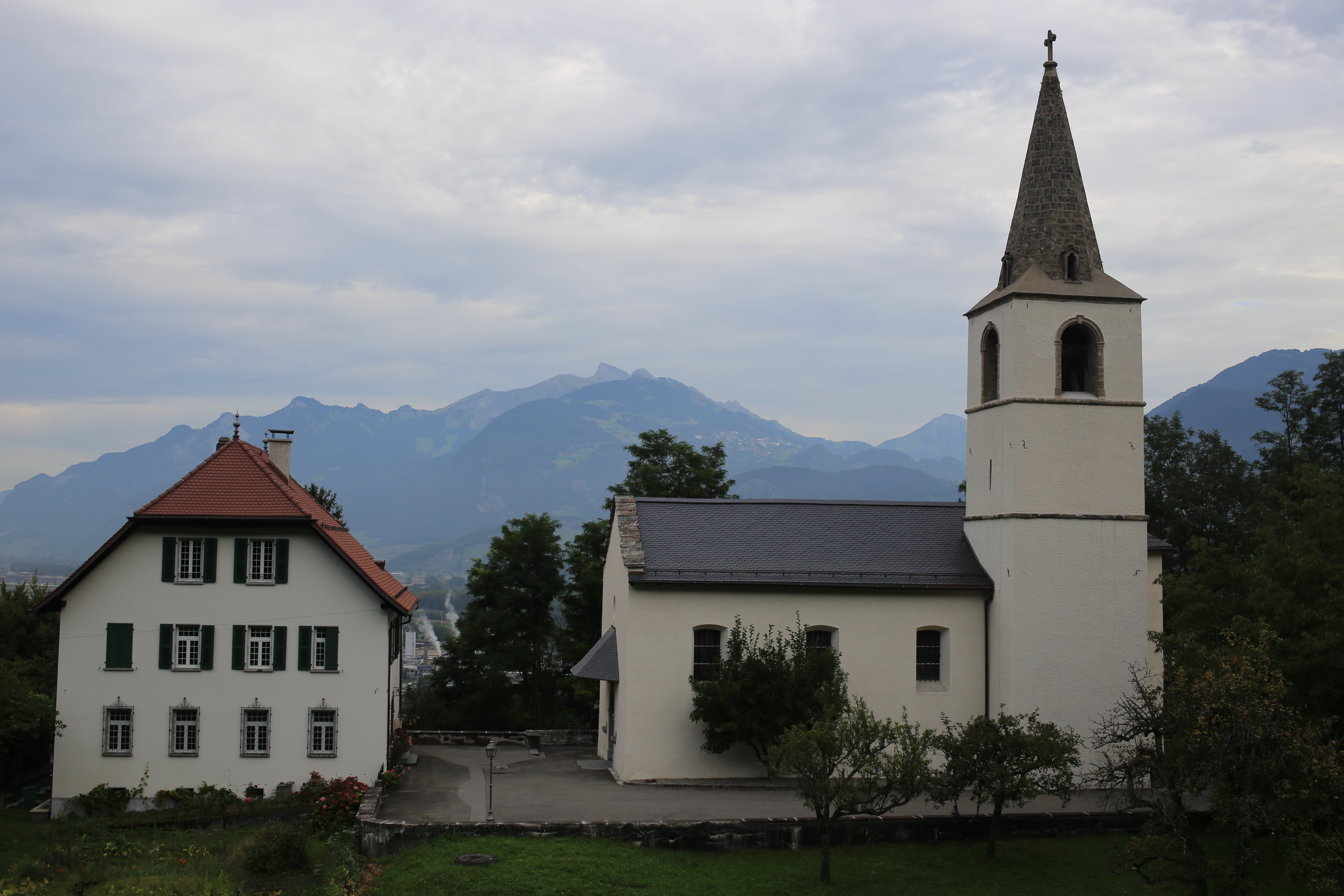 Église de Saint-Sylvestre et cure